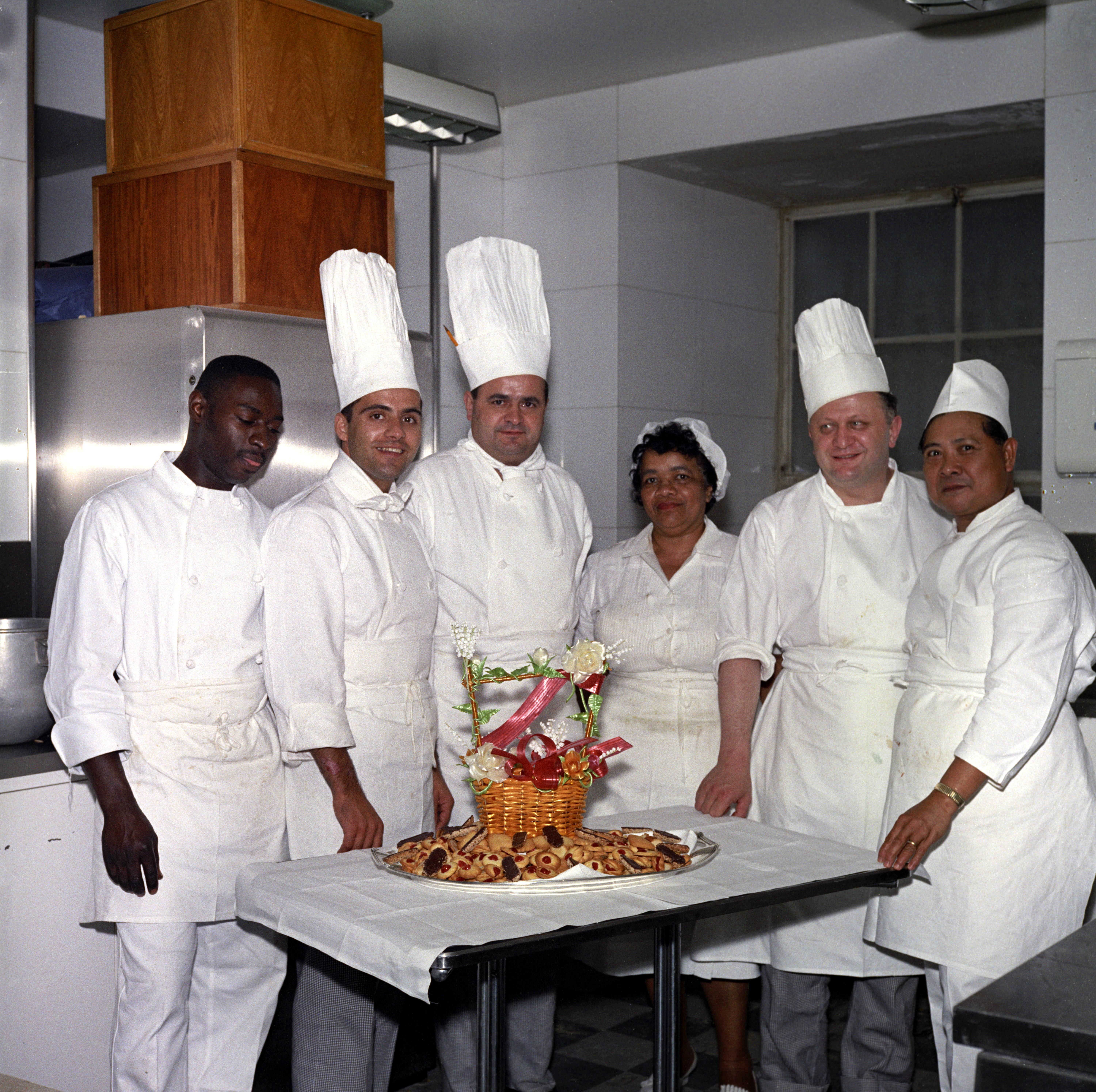 White House kitchen staff pose before serving a luncheon in honor of Alfons Gorbach, Chancellor of Austria at the White House in Washington, D.C., on May 3, 1962. Left to right: Unidentified person; Assistant Chef Julius Spessot; White House Executive Chef René Verdon; Unidentified person; Pastry Chef Ferdinand Louvat; Unidentified person.